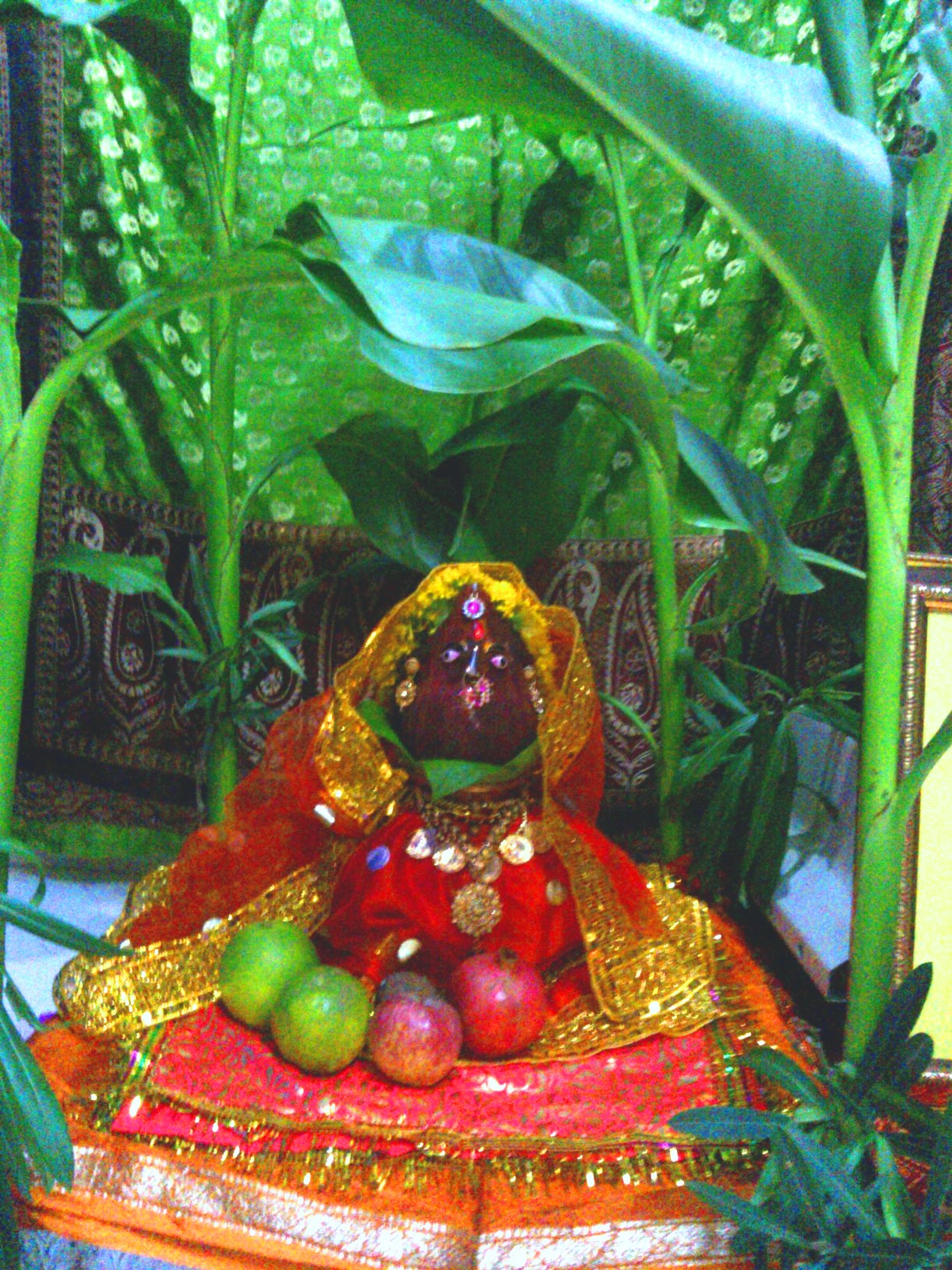 Kanbai mata pic.